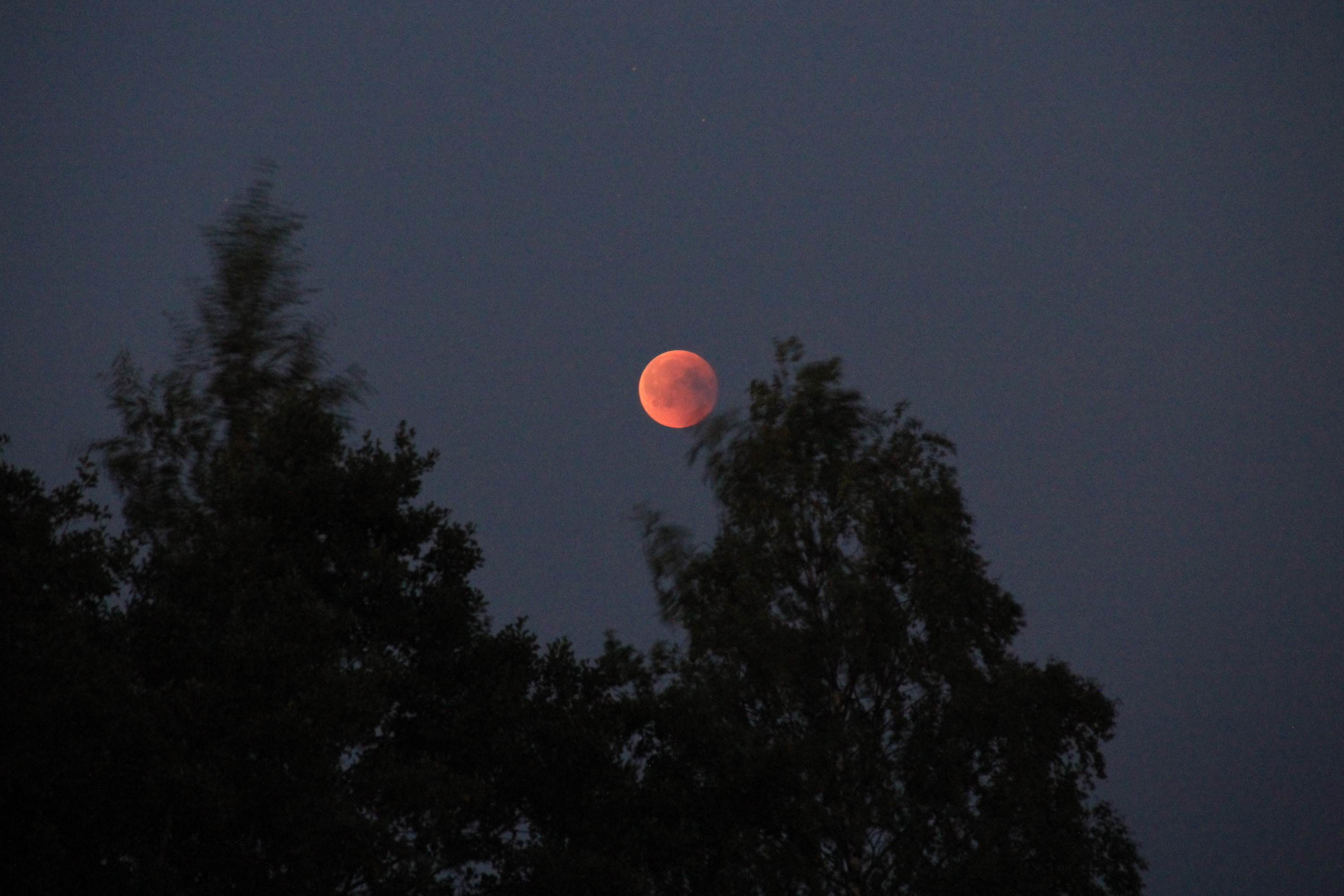 Total Lunar eclipse on 27th July 2018 at 21:08 UTC (local time 00:08 at 28th July) as seen in Savonlinna, southeastern Finland. - The total eclipse started at 19:30 UTC and was at 20:22 UTC at its deepest. Total total eclipse ended at 21:13 UTC. The moon was low in Savonlinna , clouds in the horizon so that the beginning of total eclipse could not be seen, temperature +22 °C.